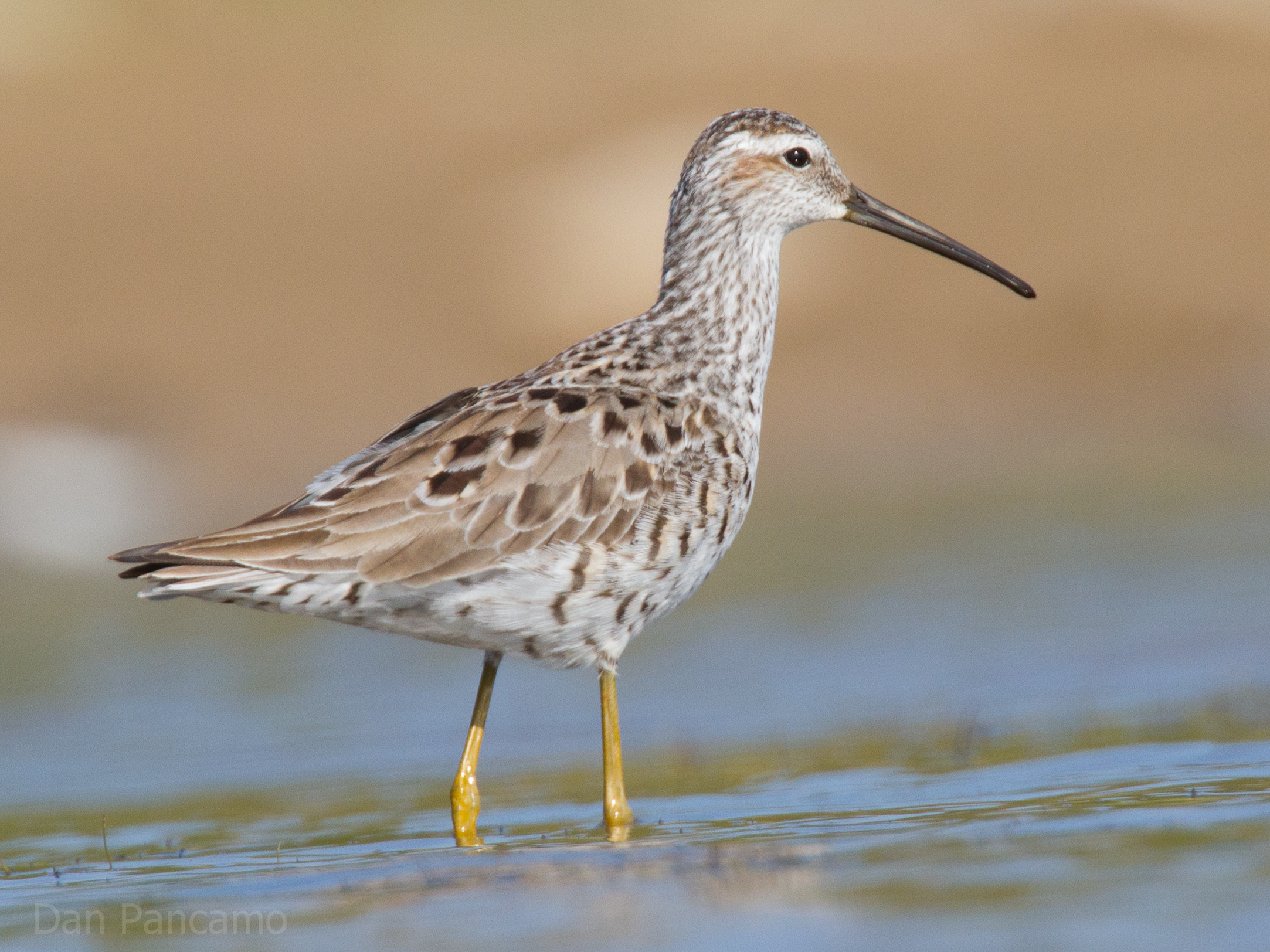 Stilt Sandpiper Calidris himantopus, Freeport, Texas, USA